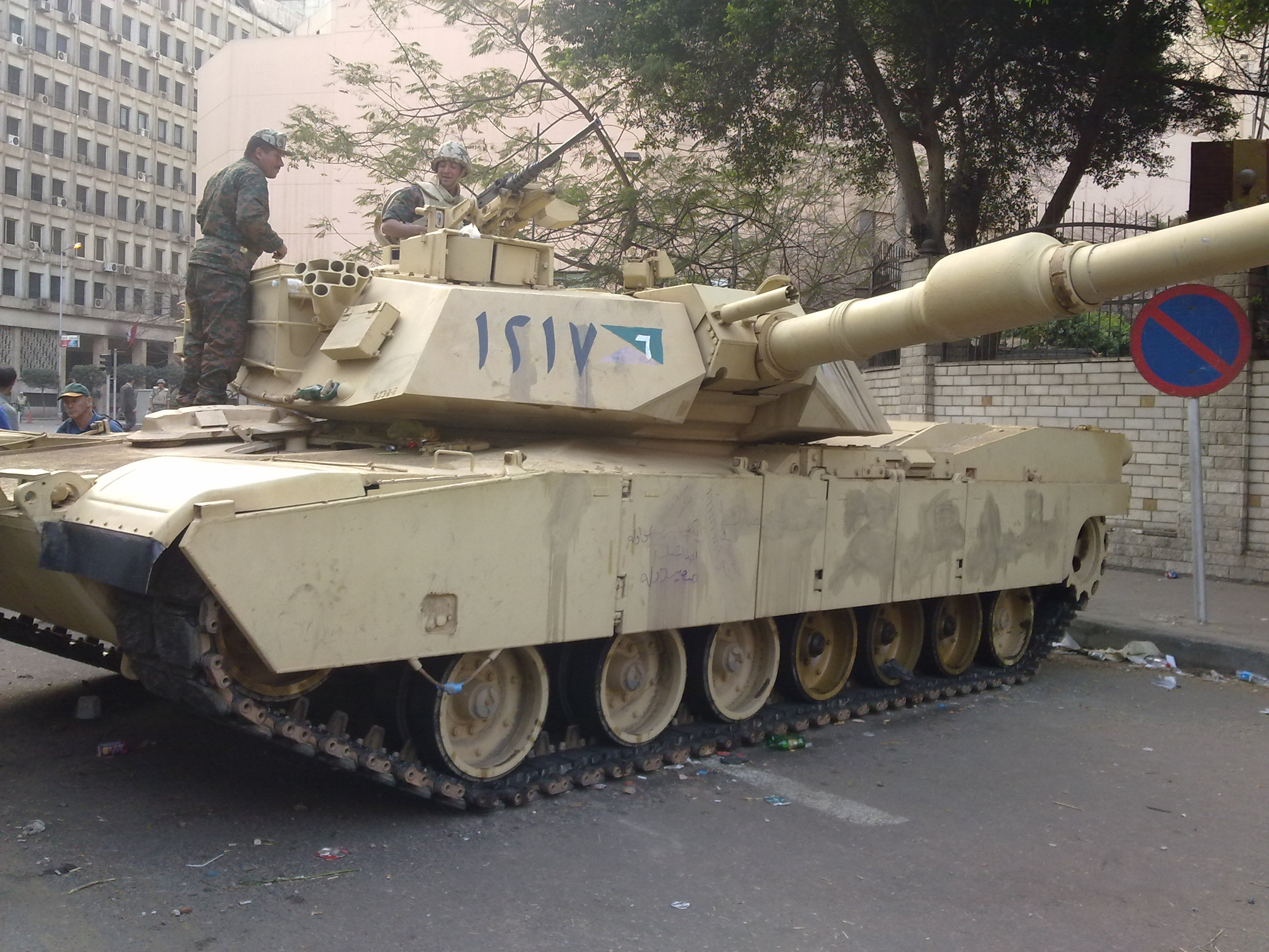 Egyptian Tank in the streets of Cairo, February 2011 in the aftermath of the 2011 Egyptian Revolution. Graffiti by protesters on Tank (near wheels) were masked or painted.